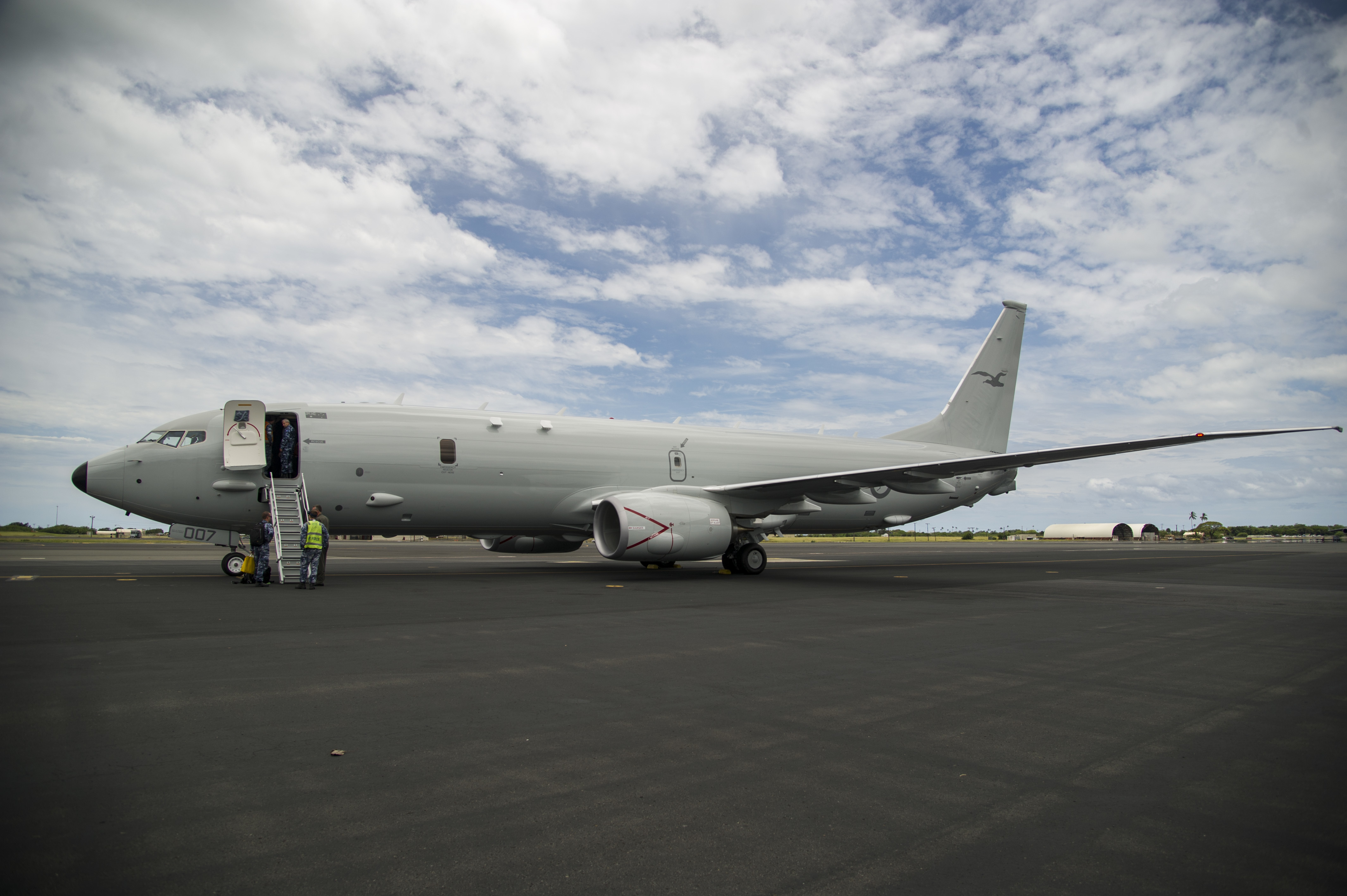 A Royal Australian Air Force P-8A Poseidon, the seventh to be delivered to Australia, arrives at Joint Base Pearl Harbor-Hickam, Hawaii, May 1, 2018. The 15th Wing supported the P-8 during its transition to 11 Squadron, RAAF Base Edinburgh, to replace the RAAF’s AP-3C Orion aircraft. (U.S. Air Force photo by Tech. Sgt. Heather Redman)